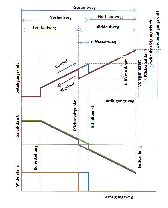 Force Travel Characteristics of a Snap Action Switch